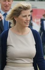 The Countess of Wessex, accompanied by Simon Mason, President of England Hockey, at the England v Germany WCT Bronze Medal Match.